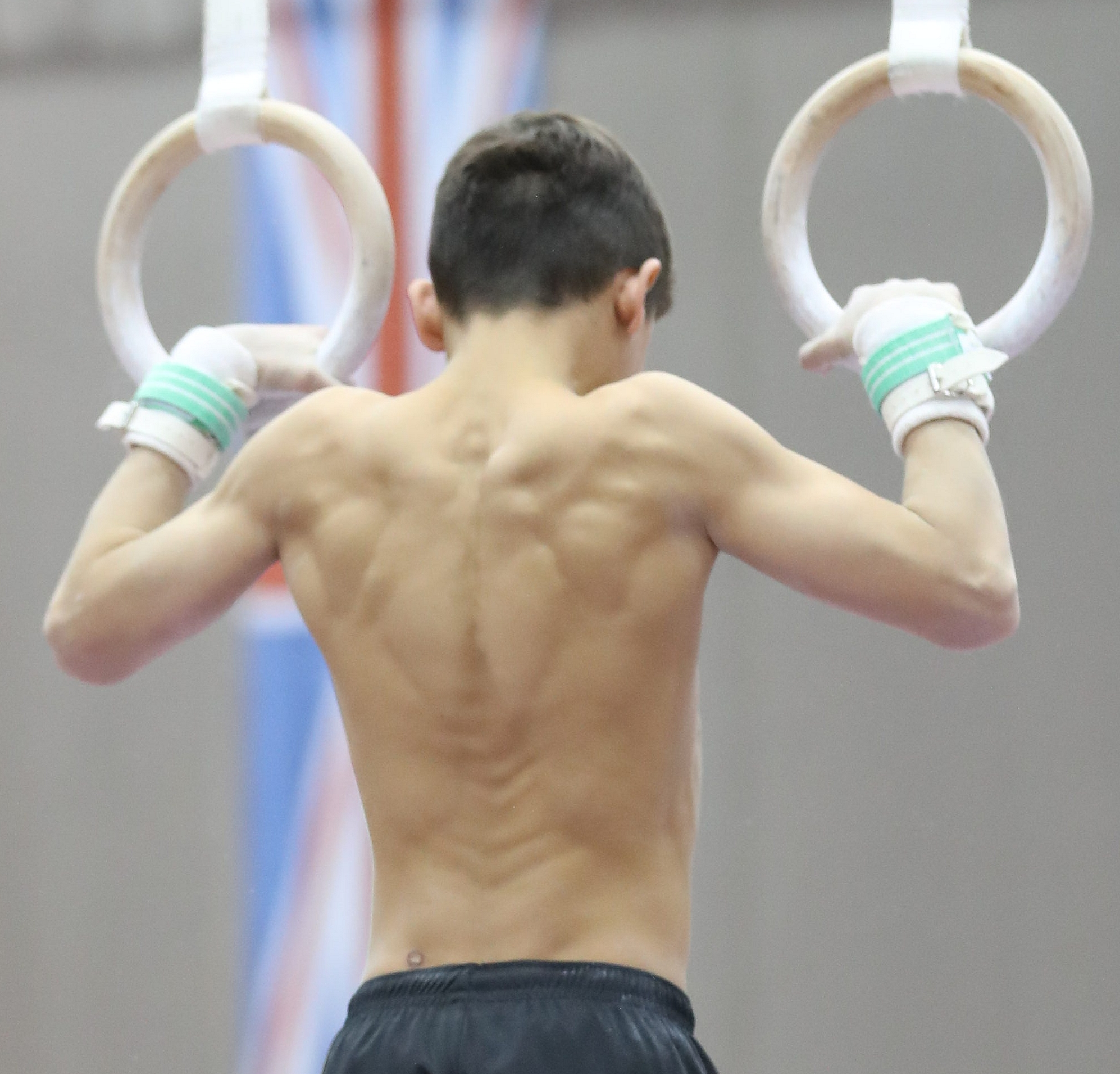 Afternoon training on rings at the 15th Austrian TGW Future Cup Linz 2018. Depicted: Timo Eder.